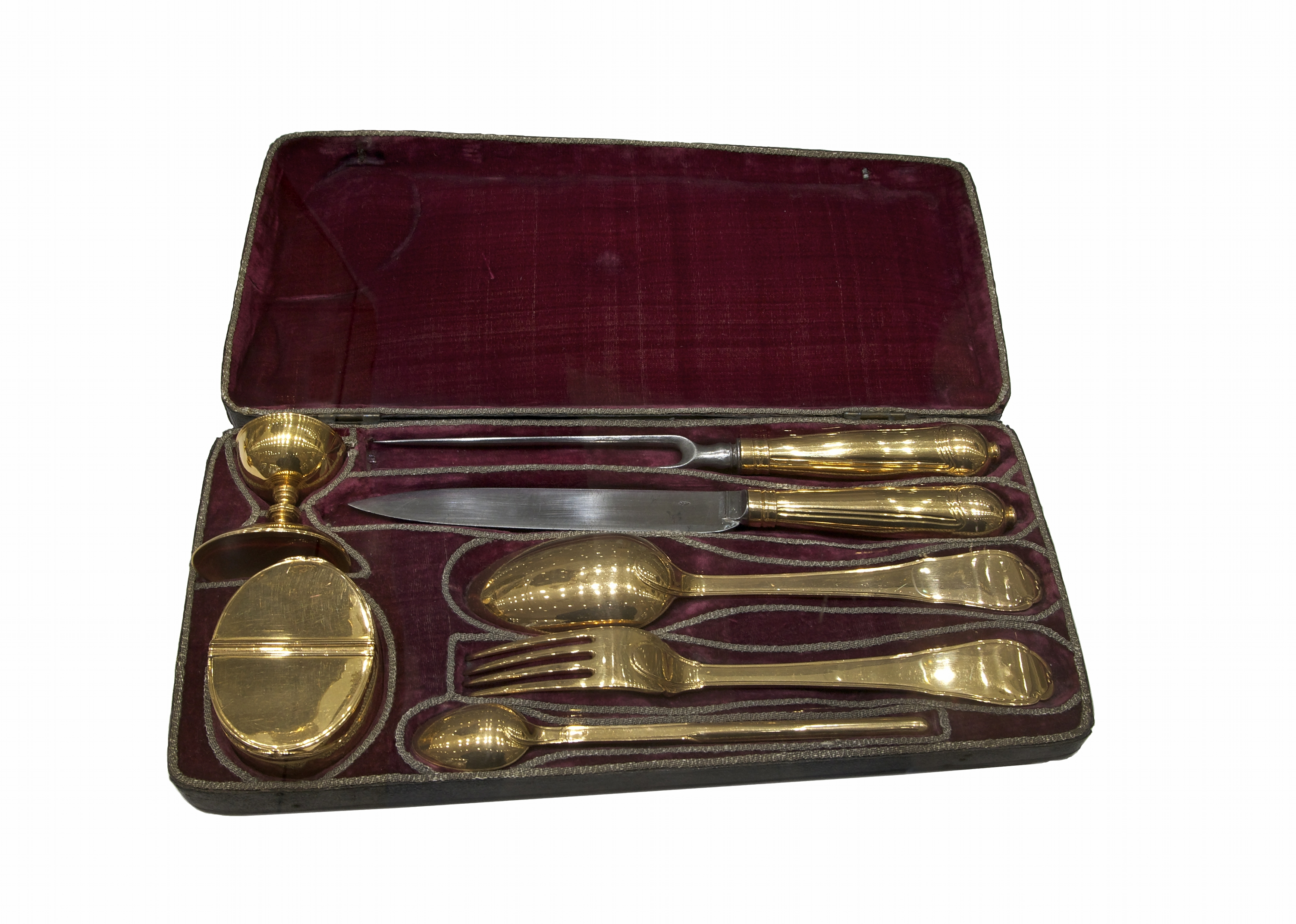 Personal cutlery set of Emperor Franz II (I). Gold, steel blade, leather and velvet box. Spoon, knife, fork, egg and marrow spoon, spice box. By Wenzel Kowanzky, Vienna, Third quarter of 18th-century. Catalogue n°6, "Silberkammer", Hofburg, Vienna, Austria.